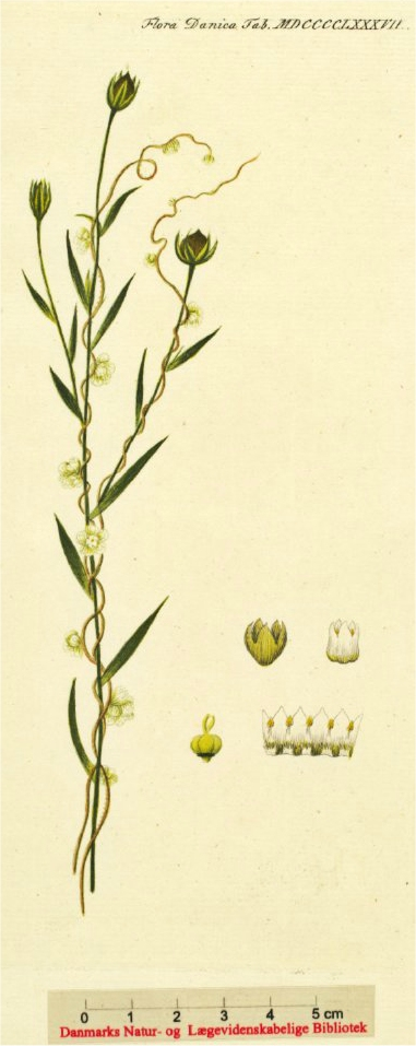 Cuscuta epilinum